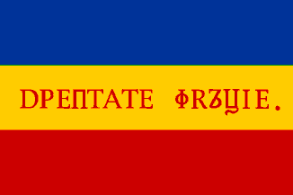 Romanian revolutionary flag of 1848. Correct model, colors and proportion at [1]